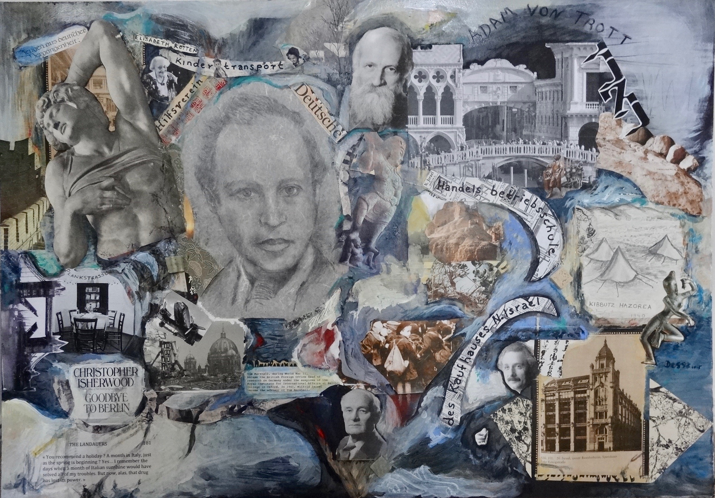 from the series «Stolzesteine». 70 x 100 cm, acrylic & collage technique on canvas